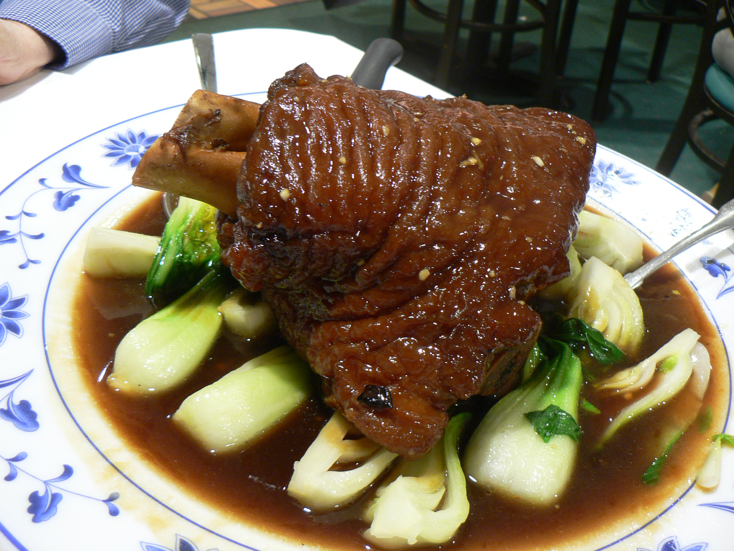 a ham hock with baby bok choy.